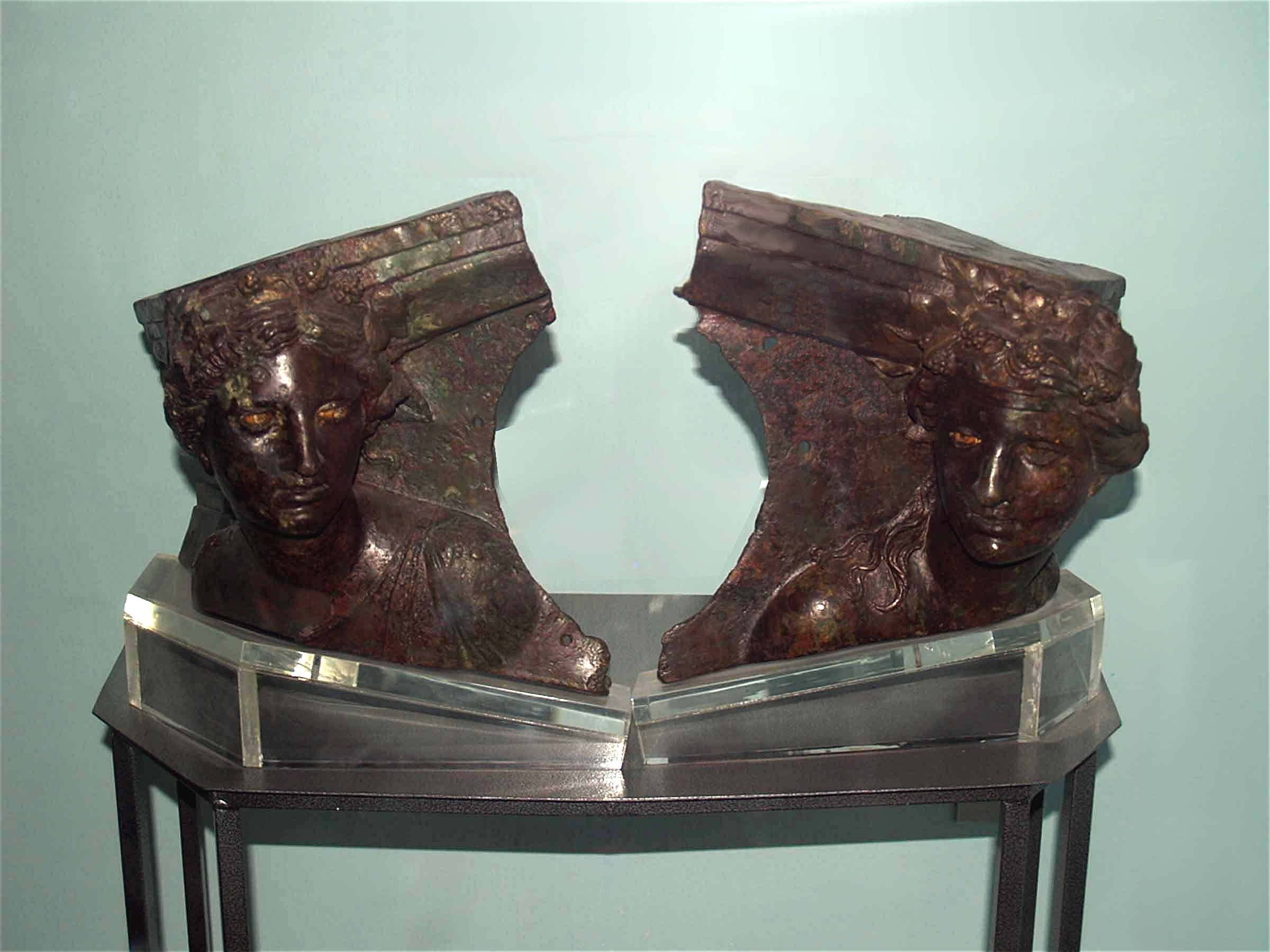 Bronzes from the Mahdia shipwreck. Bardo National Museum